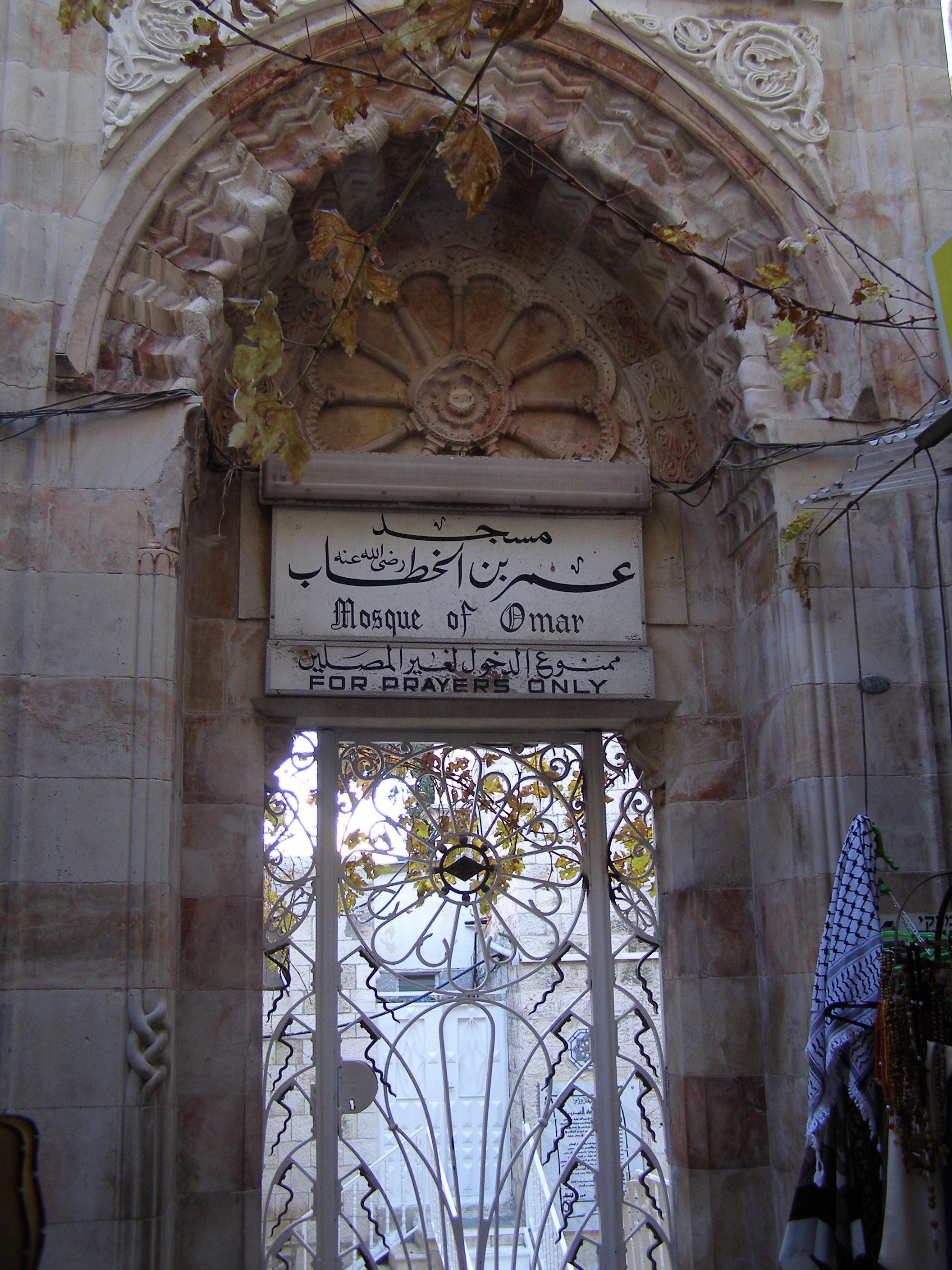 Mosque of Omar in Jerusalem